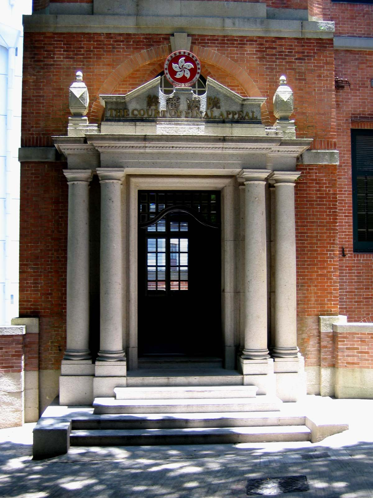 香港終審法院 Court of Final Appeal